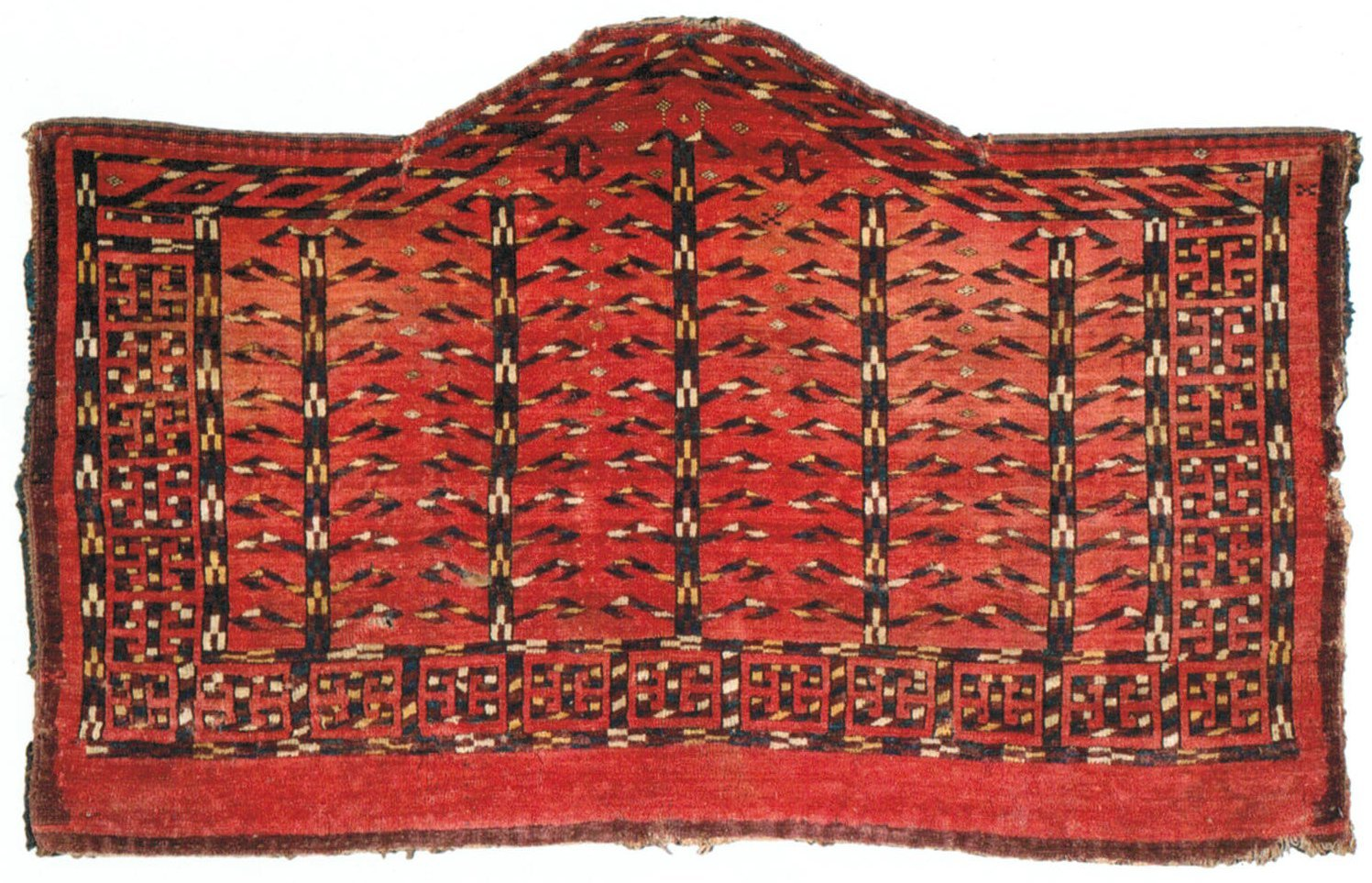 Five Tree Yomut Asmalyk, Turkmenistan, 18-19th century, 75 x 124 cm, Nagel Auction, Stuttgart